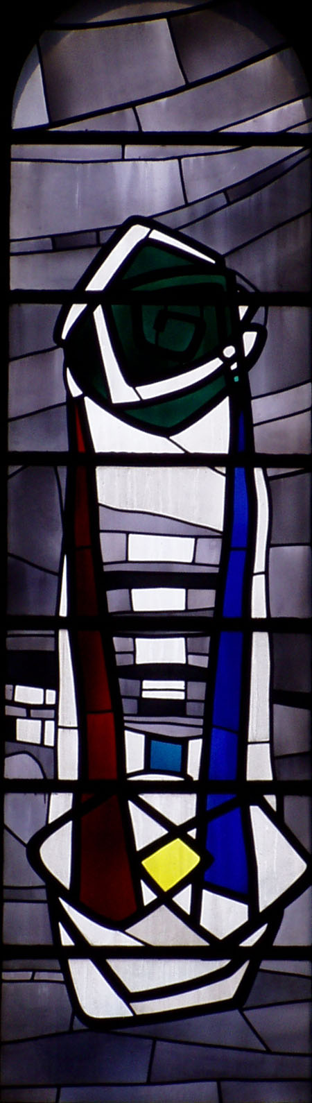 Windows 'Ehe' (marriage) by Karl Clobes, Heiligkreuz church, Würzburg, taken from the outside at night.